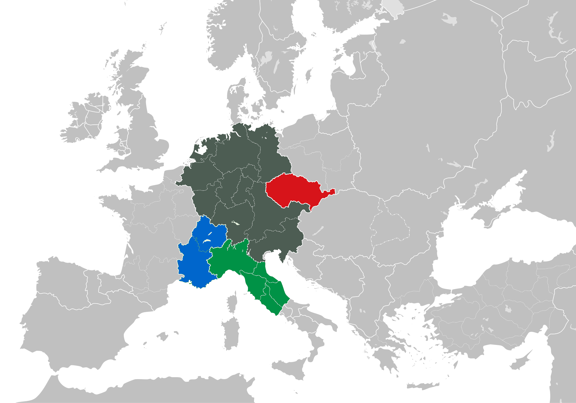 Four kingdoms of early HRR (1000) Grey: Germany Green: Italy Blue: Burgund Red: Bohemia